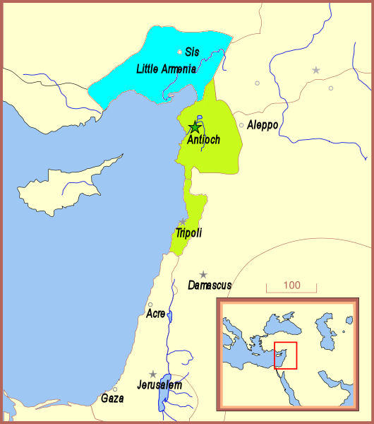 Map of Little Armenia, Principality of Antioc and Tripoli